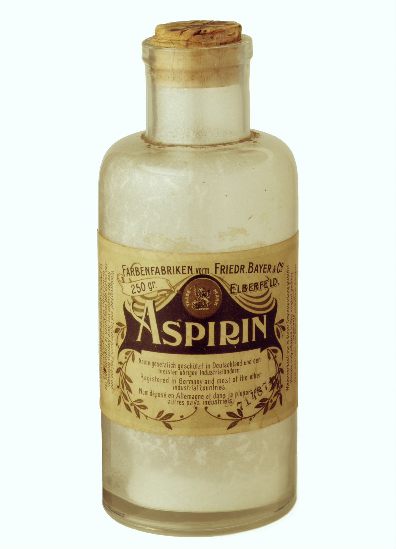 Bottle with aspirin, 1899. from Bayer Archives